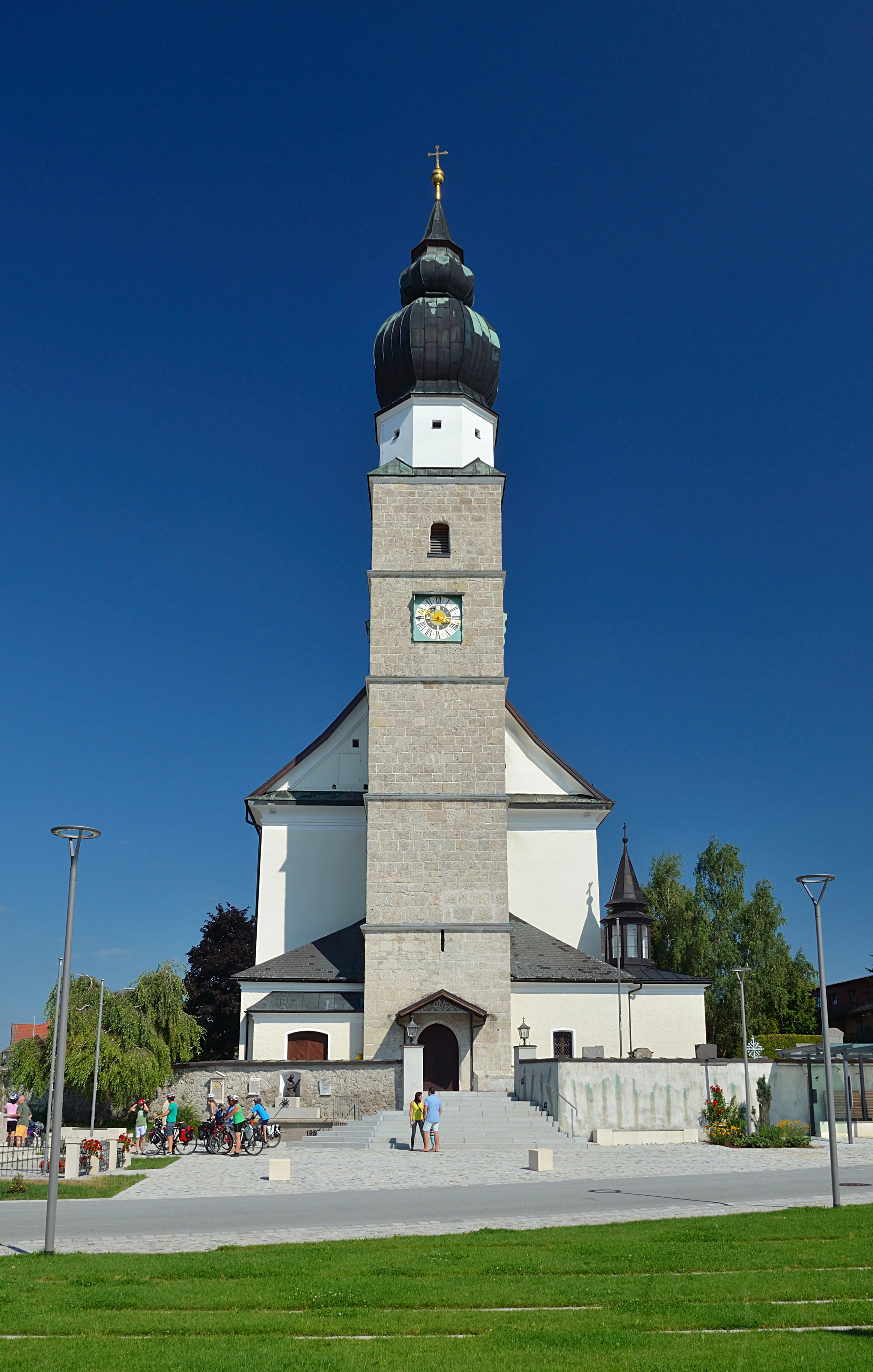 Parish church Saint Martin in Eugendorf, Salzburg. Heading east.